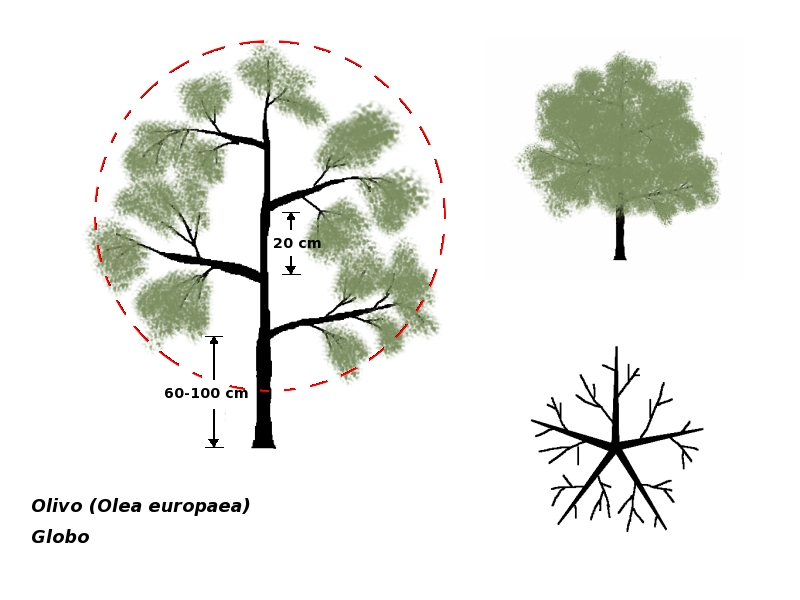 Olive-tree growing systems: globe form